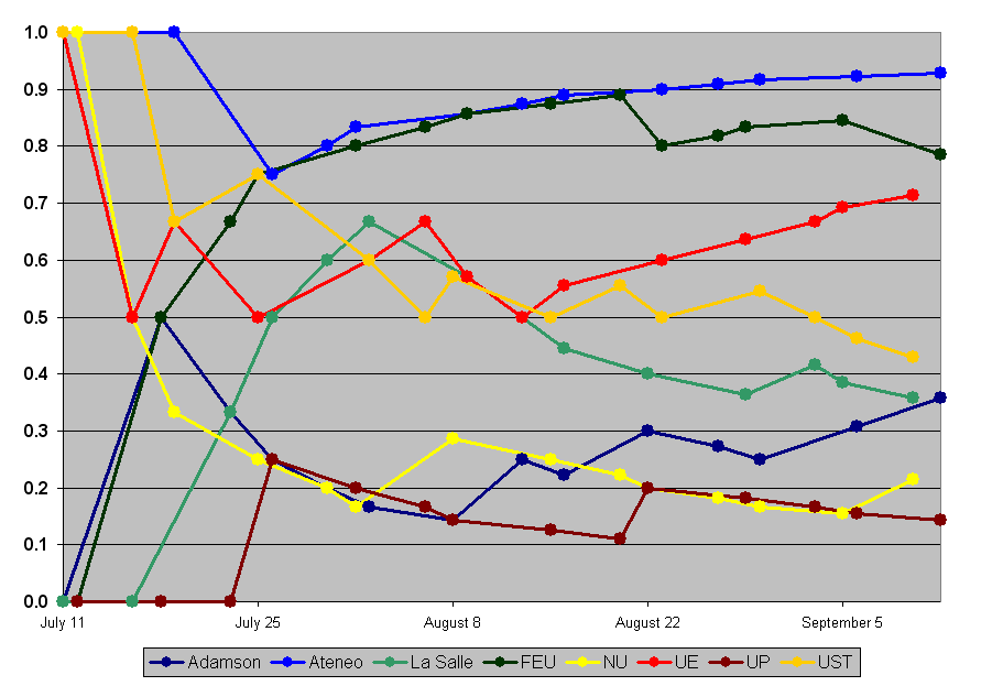 Running team standings for UAAP Season 72 men's basketball tournament